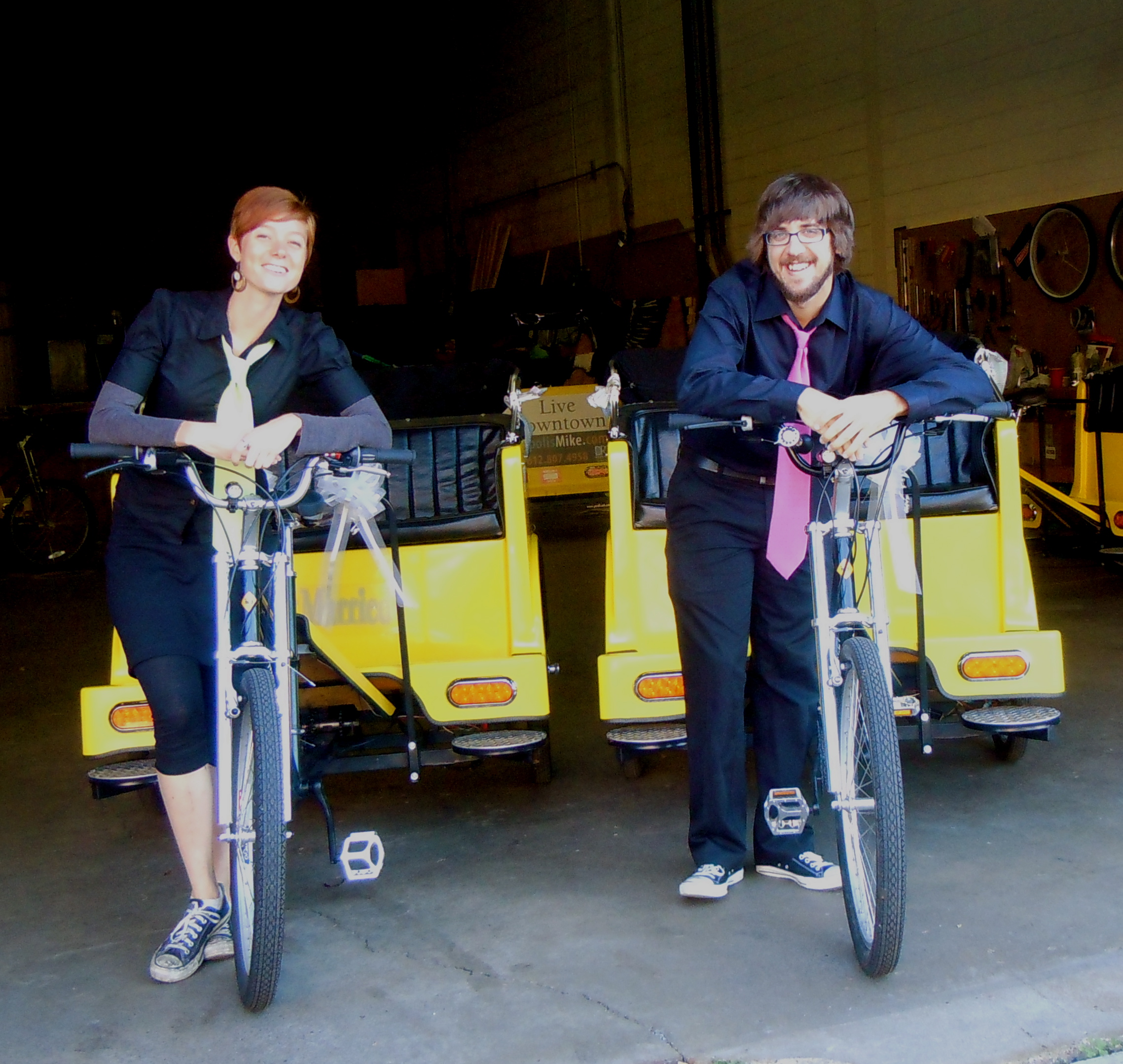 Two pedicab drivers on their way to transport a wedding party from their hotel to the wedding.